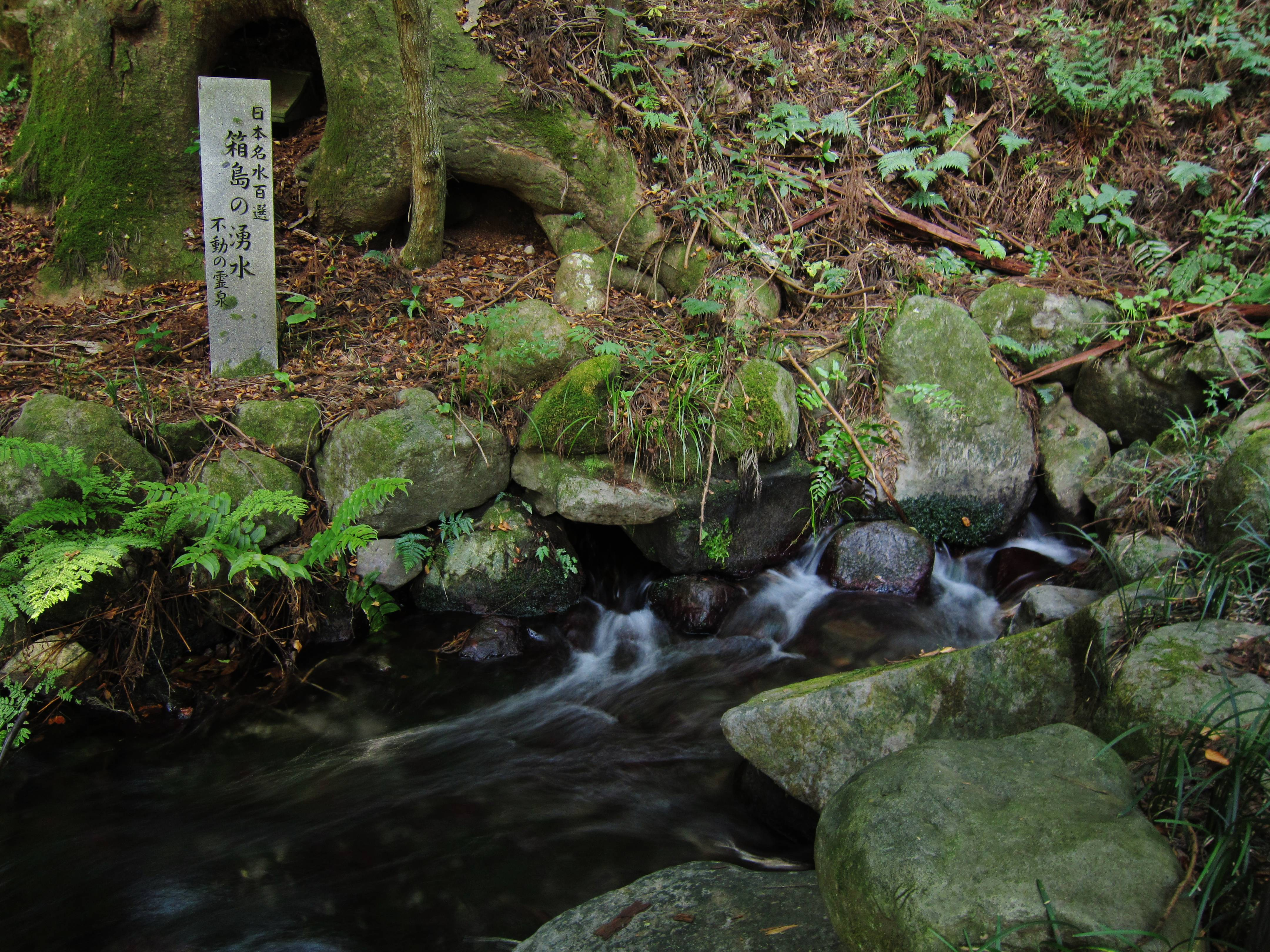 Hakoshima Yusui.